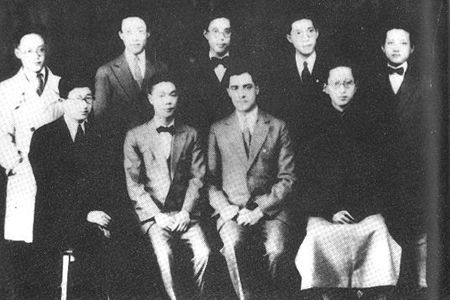 Ba Jin and Esperanto Movmento